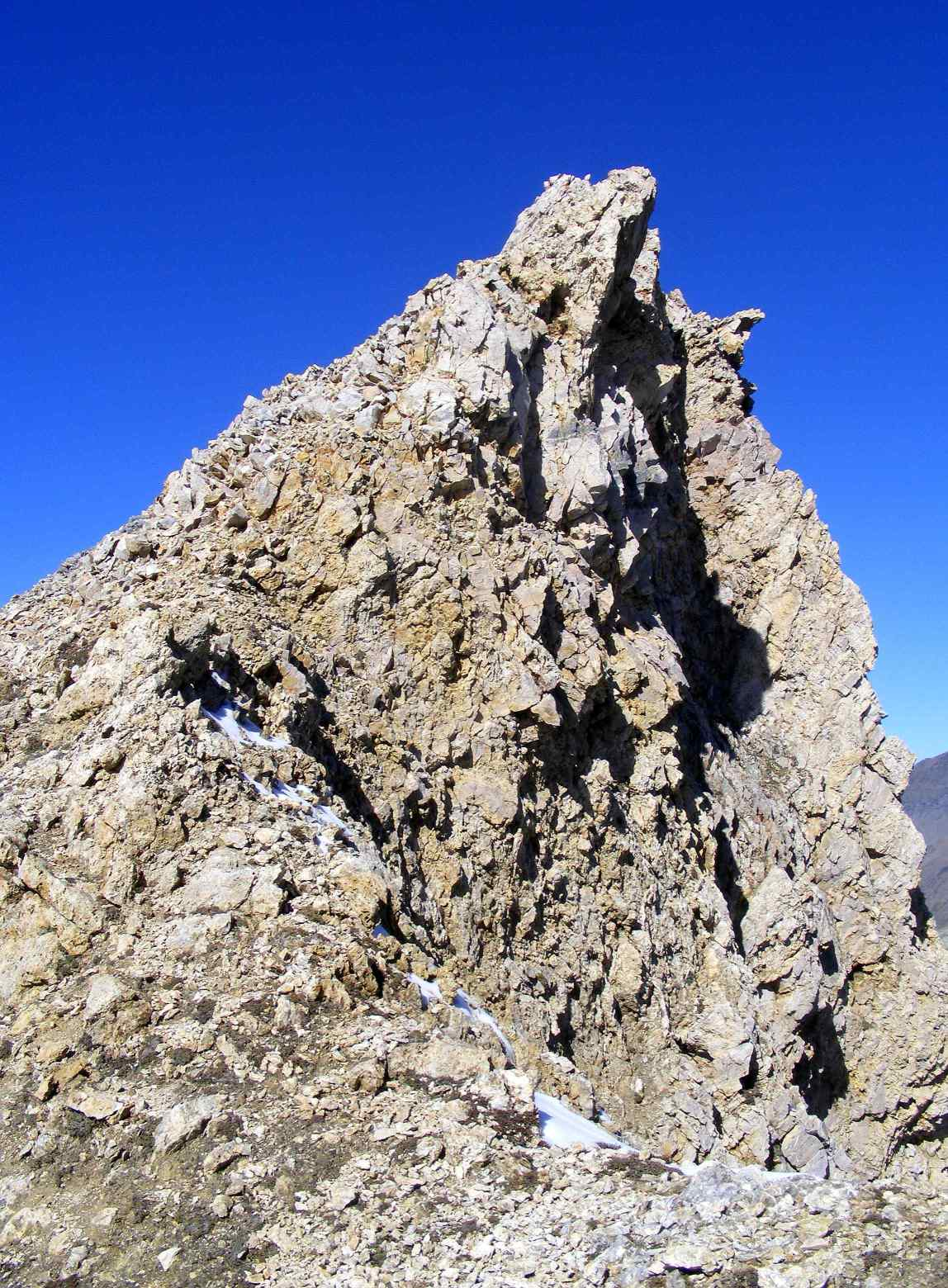 Punta Galambta (TO, Italy): the rocky top